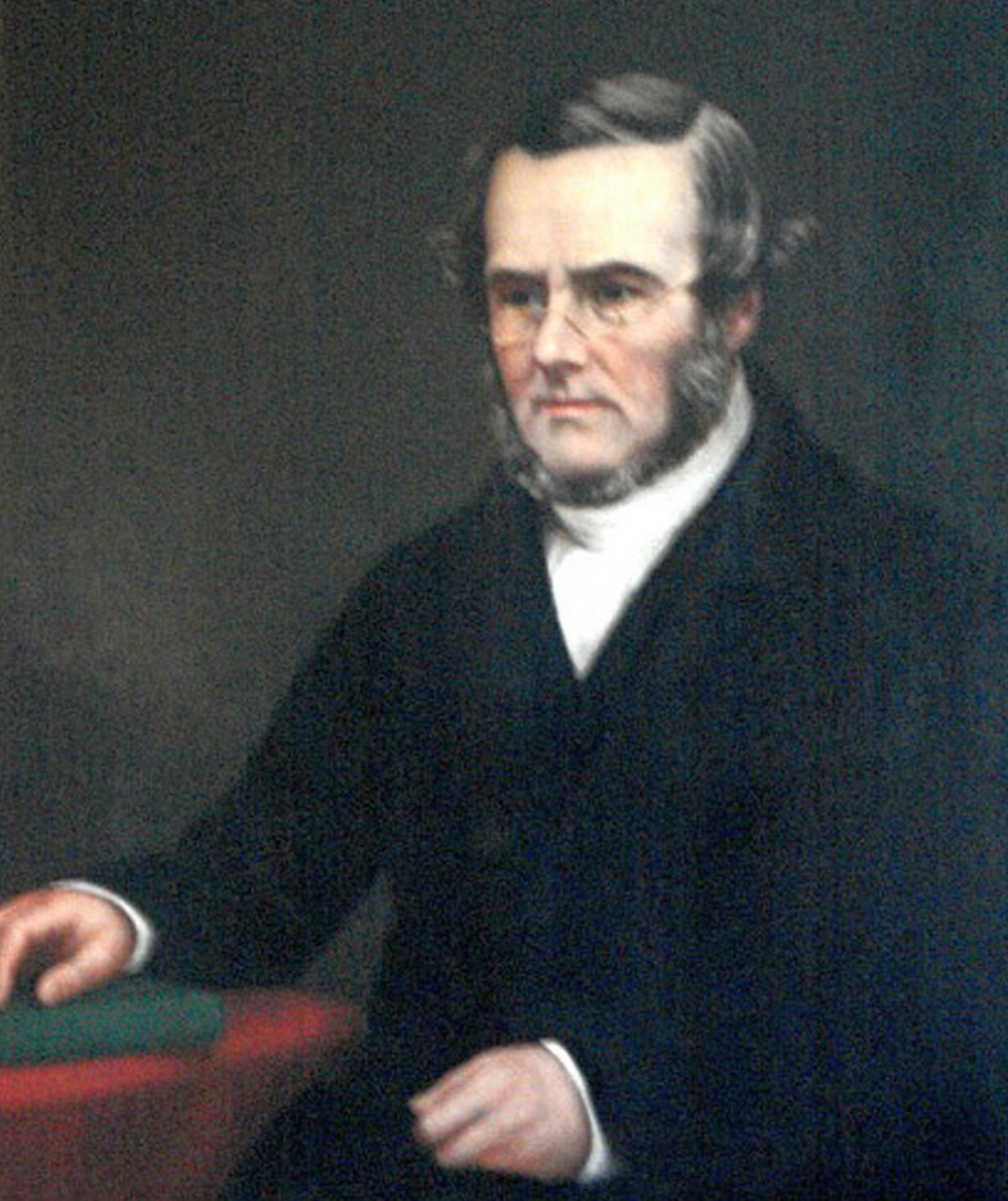 Painting of 19th-century property developer Seth Smith (1791-1860)